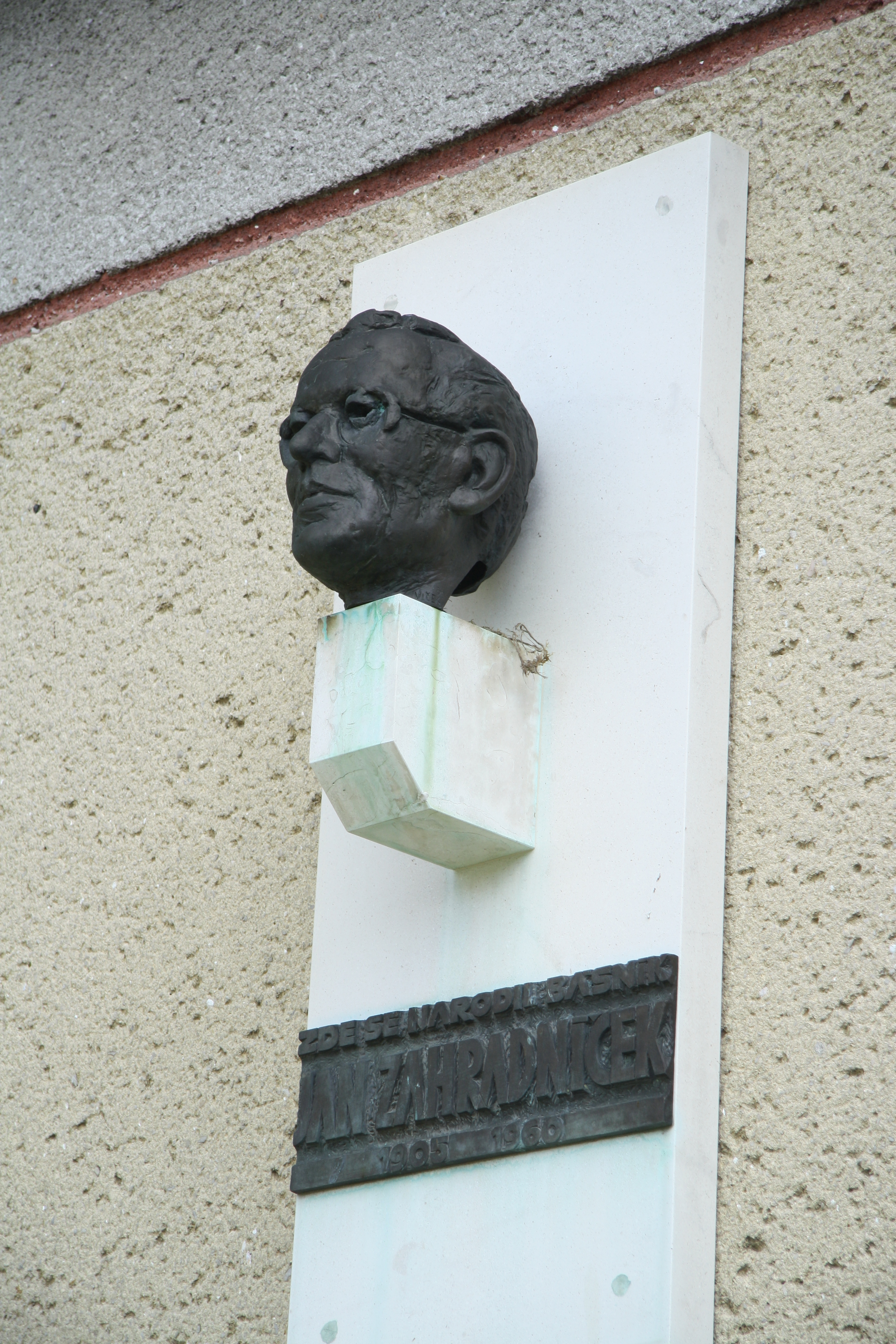 Bust of Jan Zahradníček in Mastník, Třebíč District.